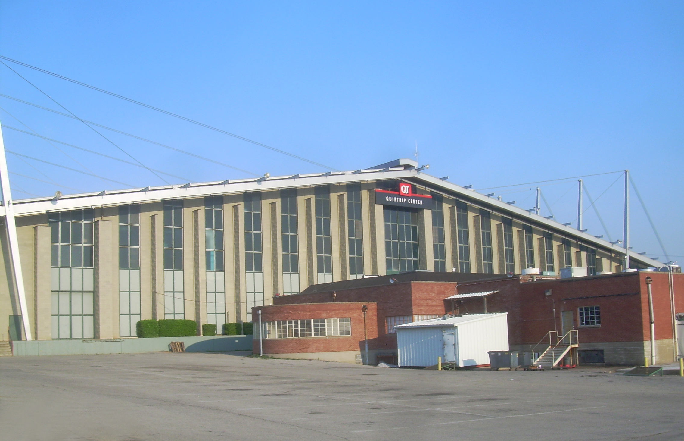 East side of the Expo Center